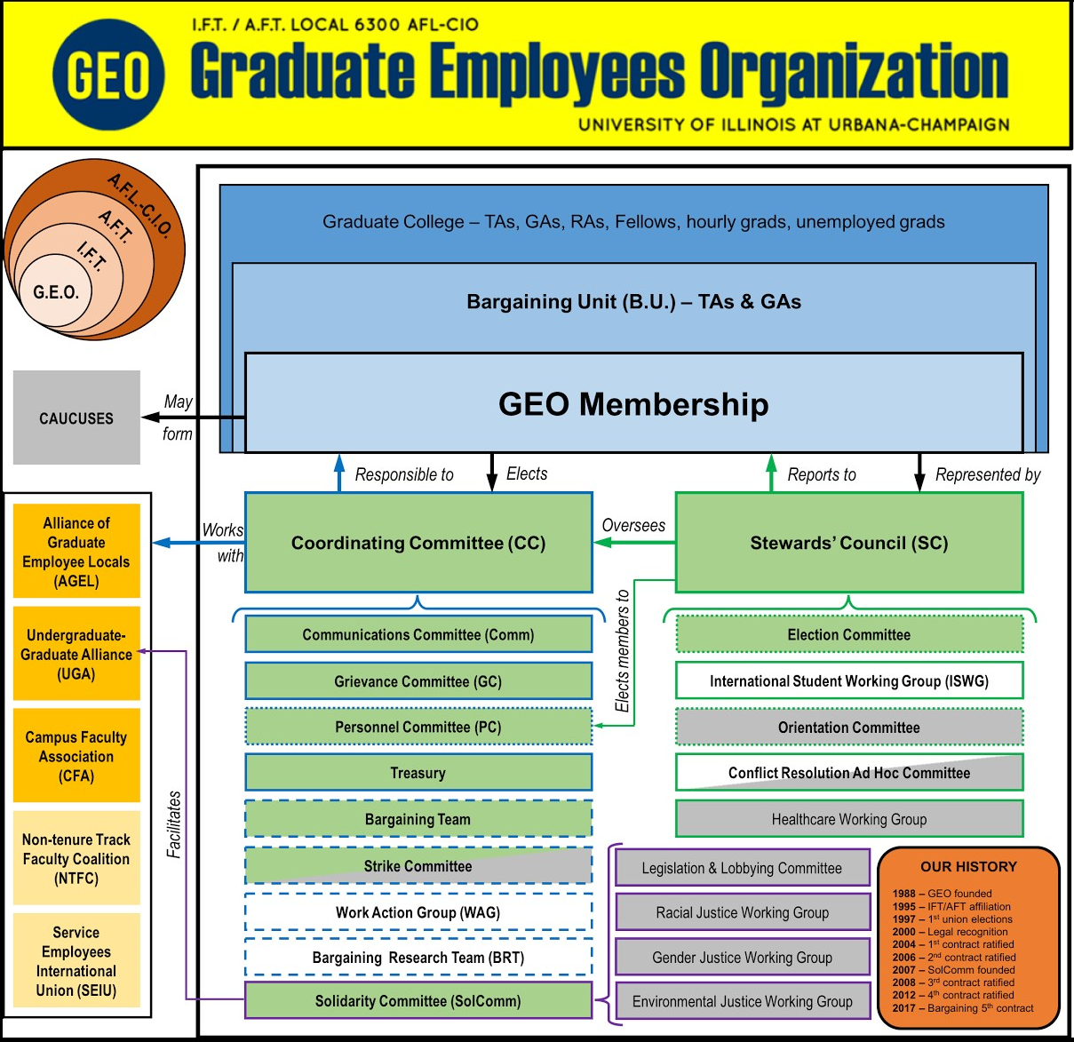 Graph detailing the organizational structure of the Graduate Employees' Organization at the University of Illinois in Urbana-Champaign.